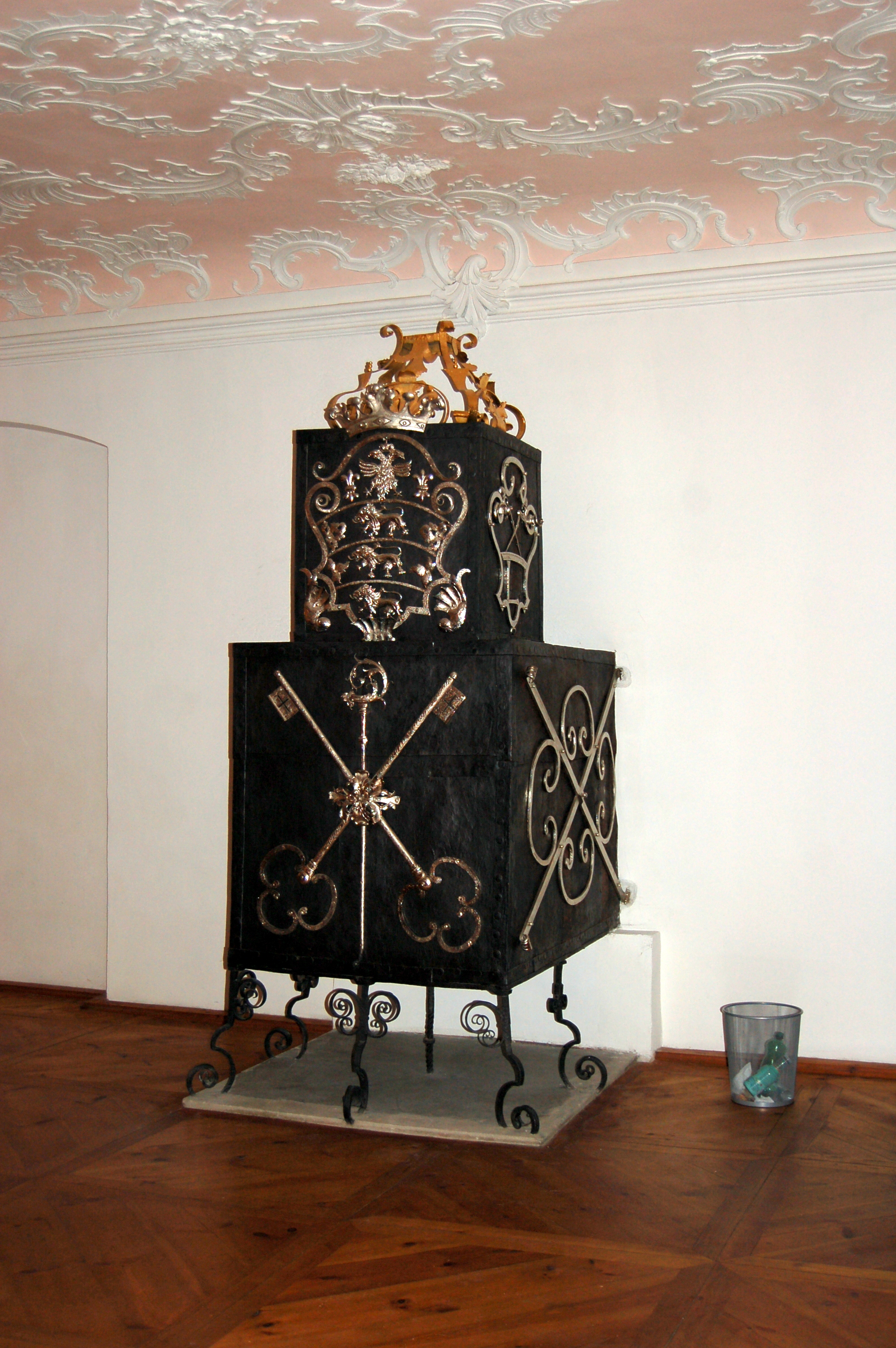 Iron stove in the former refectory in the Provost's Mansion in Aflenz Kurort, Styria